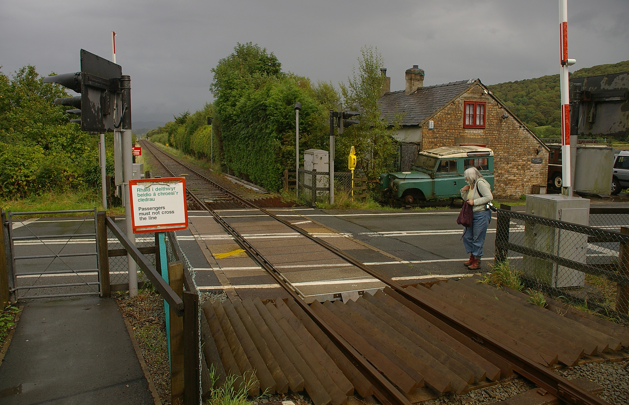 The Cambrian Coast Line level crossing at Tygwyn.